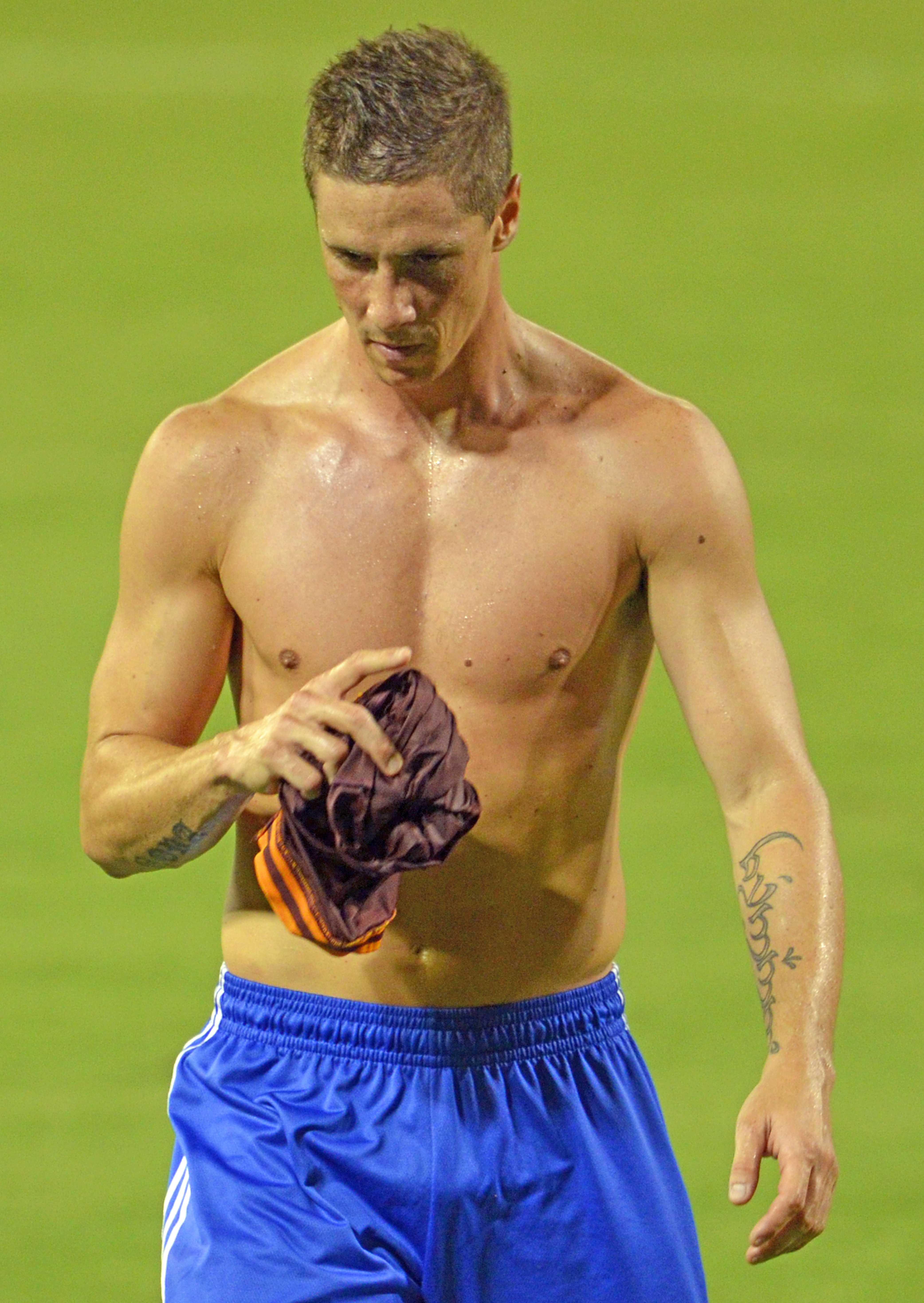 Fernando Torres walking off the pitch at halftime of the Chelsea vs. A.S. Roma exhibition game in the August 2013. Location: Washington D.C, RFK Stadium.